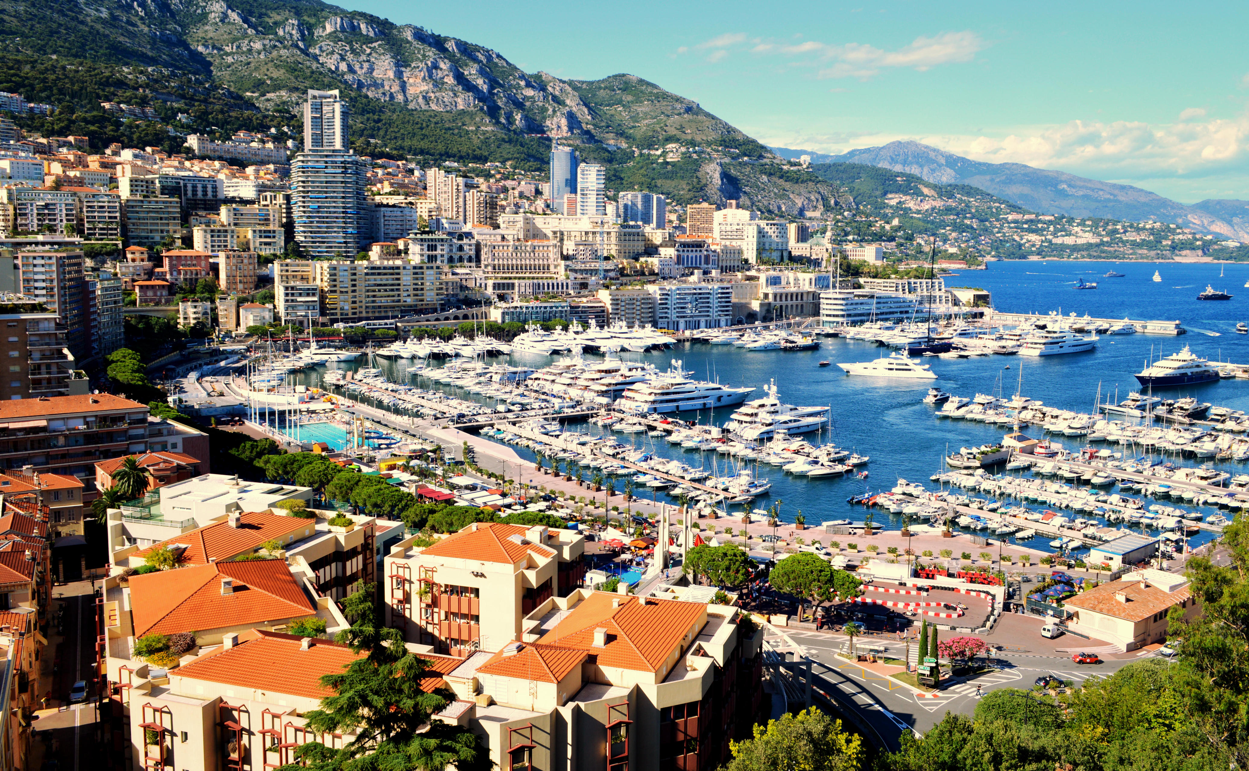 Monaco's Port Hercule from Place de Palais